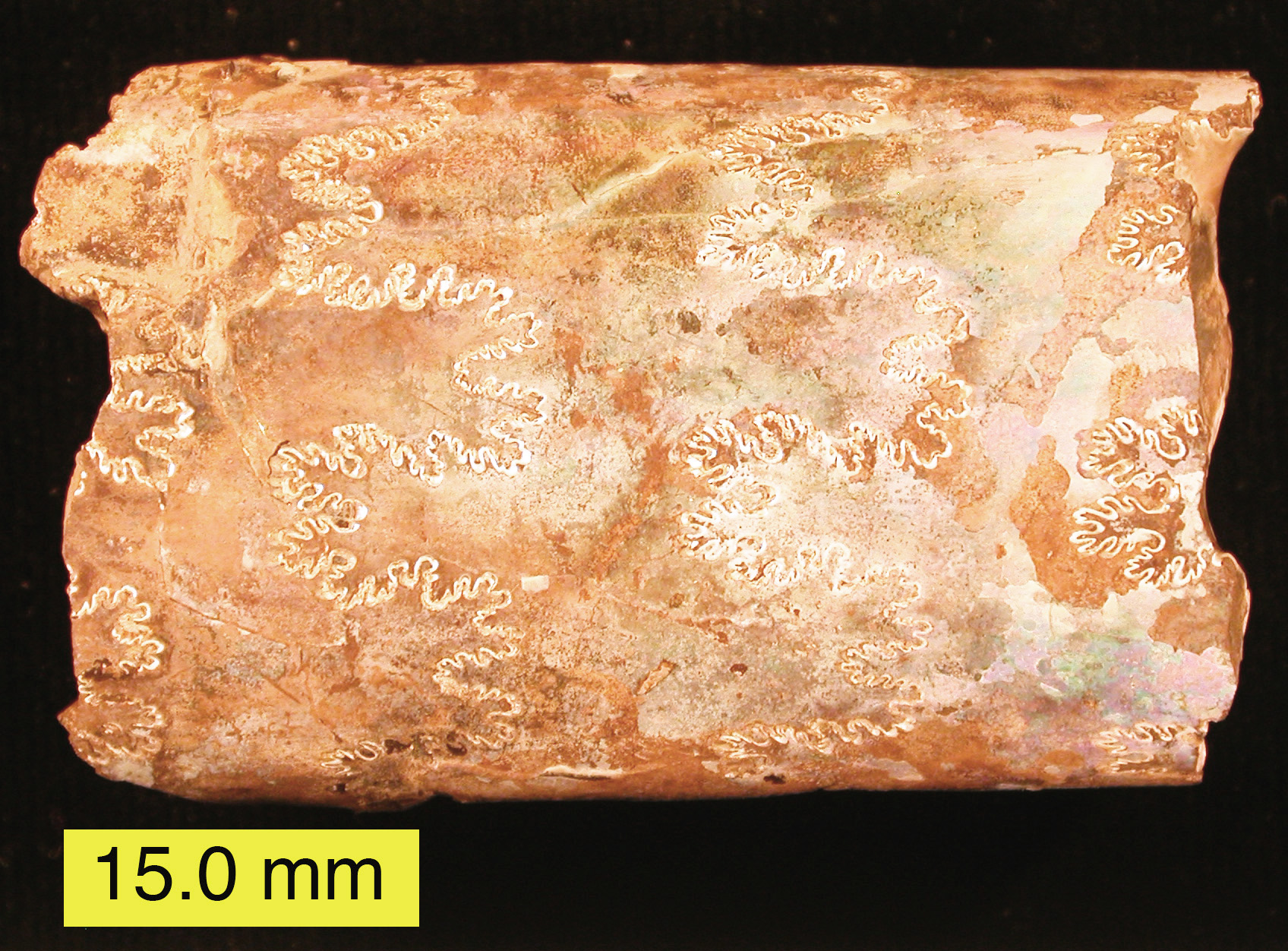 Sutures and remnant aragonite on Baculites from the Late Cretaceous Pierre Shale of southwestern South Dakota.